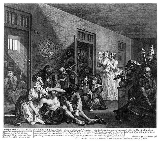 In The Madhouse — Plate 8, A Rake's Progress, William Hogarth. Engraving, 35.5 x 41cm. This is a scan of a print from the plate after Hogarth retouched it in 1763 by adding the Britannia emblem.